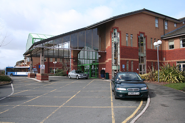 Exeter: Royal Devon & Exeter Hospital, Wonford The main entrance. The hospital is linked to the park and ride at Digby by bus PR3, a useful connection as the car parks here are often full, or nearly so